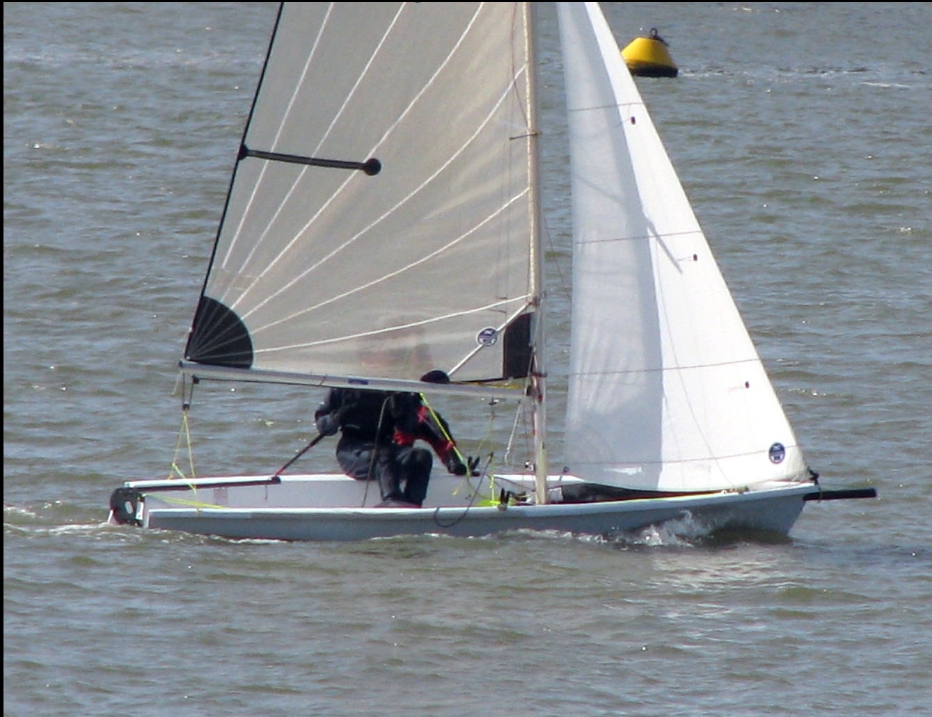 V3000 dinghy showing gnav and Dacron jib